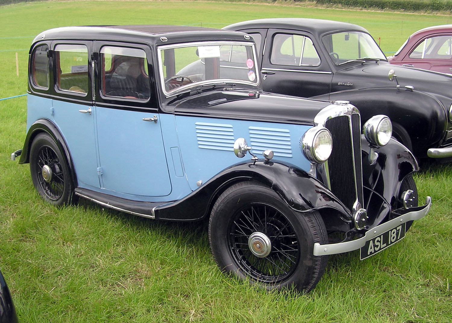 1933 Standard Ten at the Great Western Road Run rally at Aust Services, Aust, Bristol, England. Taken by Adrian Pingstone in October 2004 and released to the public domain.